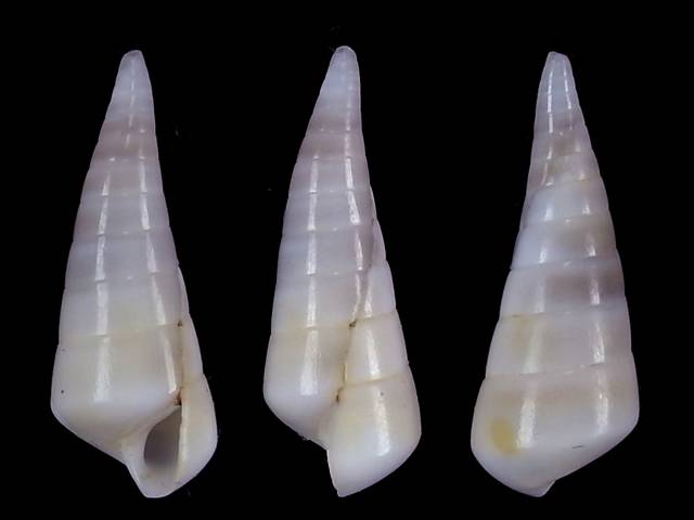 Melanella solidula (Adams & Reeve, 1850); family Eulimidae; East China Sea